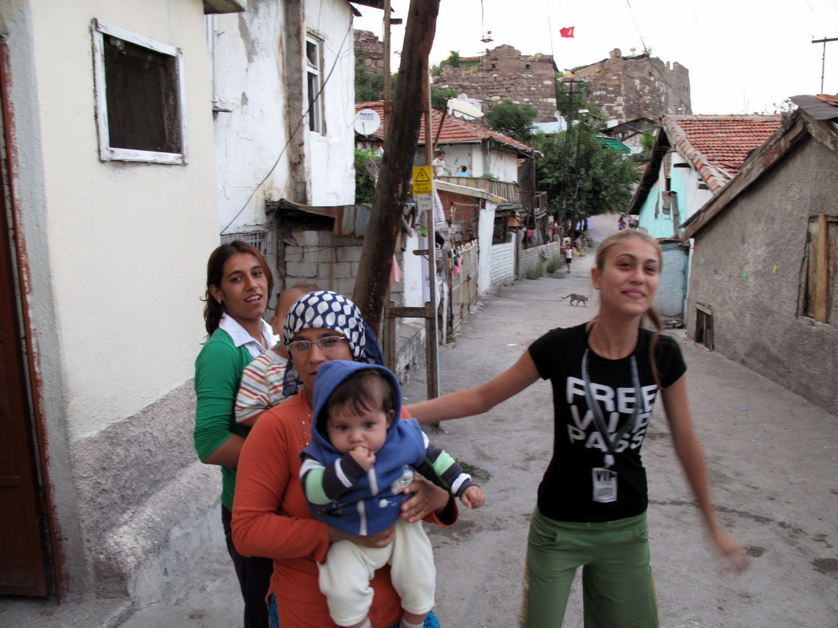 These photos are from an amazing walk through enclosed old City of Ankara in Ulus above the Archeological Museum. When we entered those walls, we didn't know what we were getting in to, and these photographs do not portray this well, as it demanded experience, through the lense of my iris.